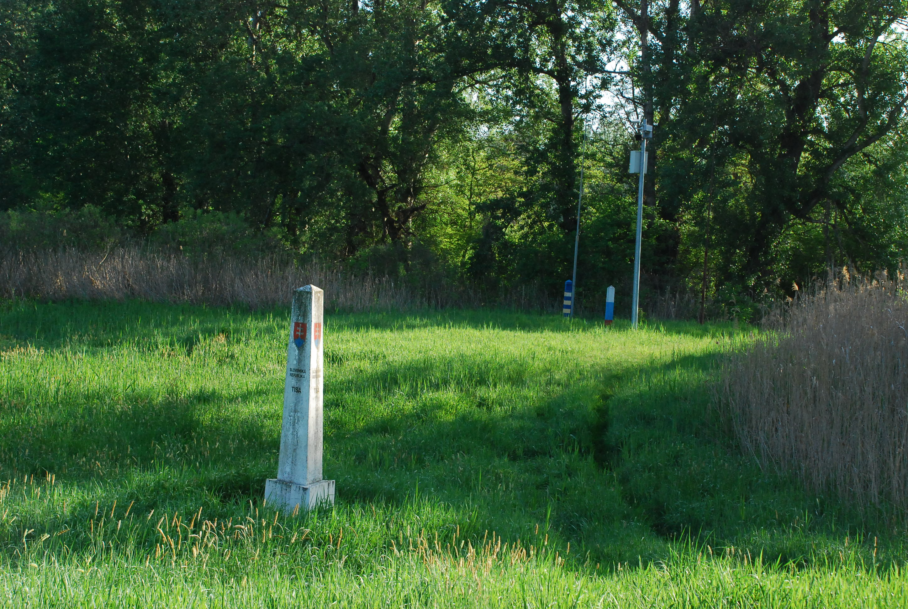 Slovakian-Hungarian-Ukrainian tripoint. Tripoint lies in the middle of Tisa river. View from Slovakian side.